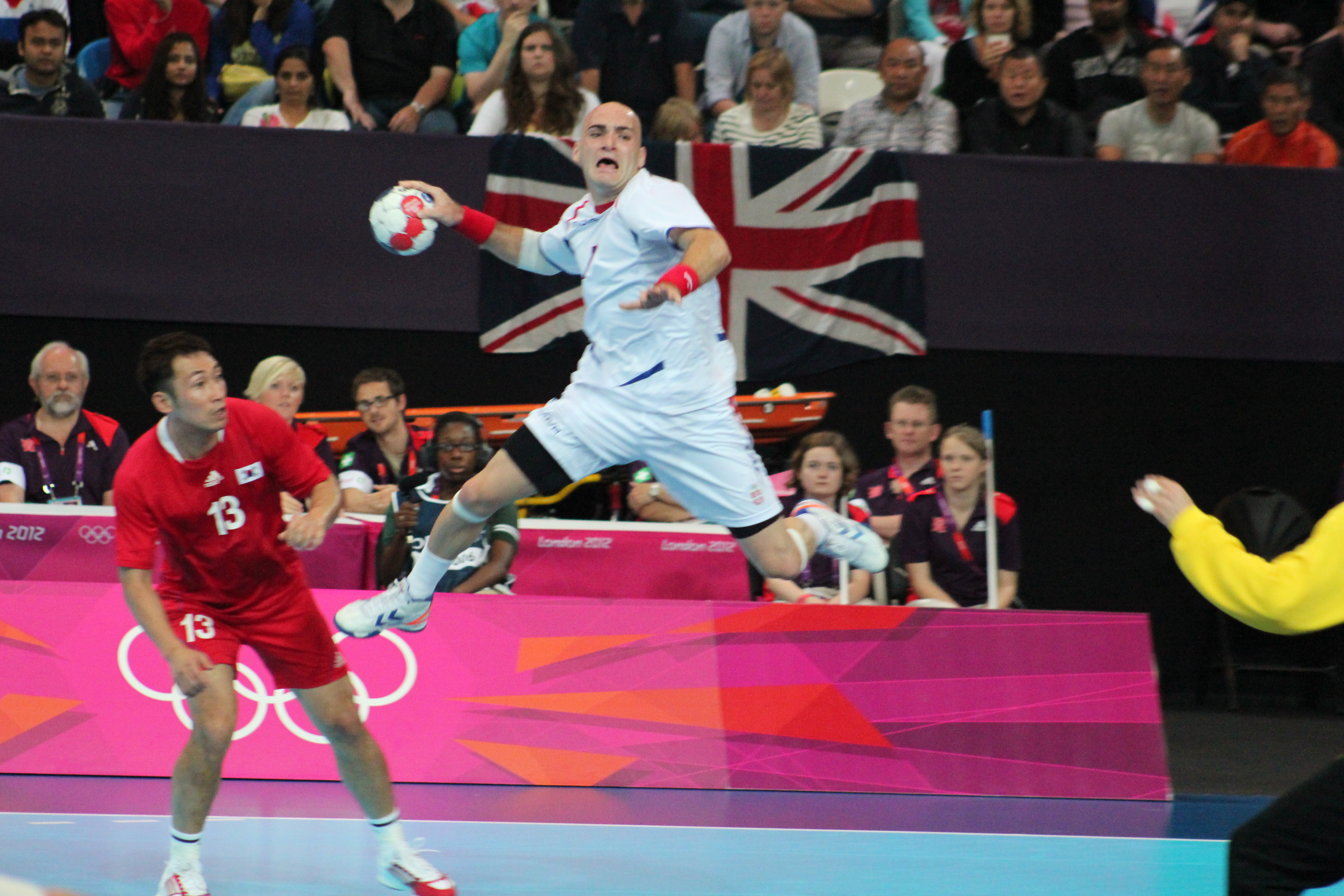 London Olympics 2012. Features Handball, mostly Serbia pics.